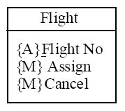 6 The Assign and Cancel Methods for Airline Flight Reservation